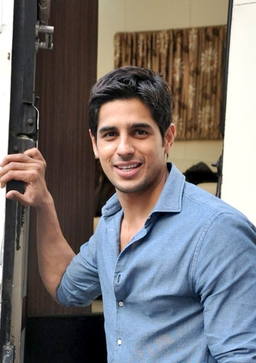 Sidharth Malhotra at a promotional event for Hasee Toh Phasee